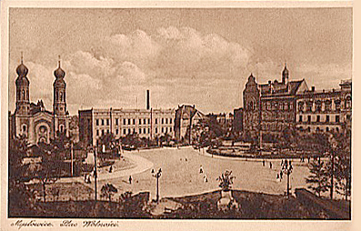 Synagogue in Mysłowice, not later than 1938